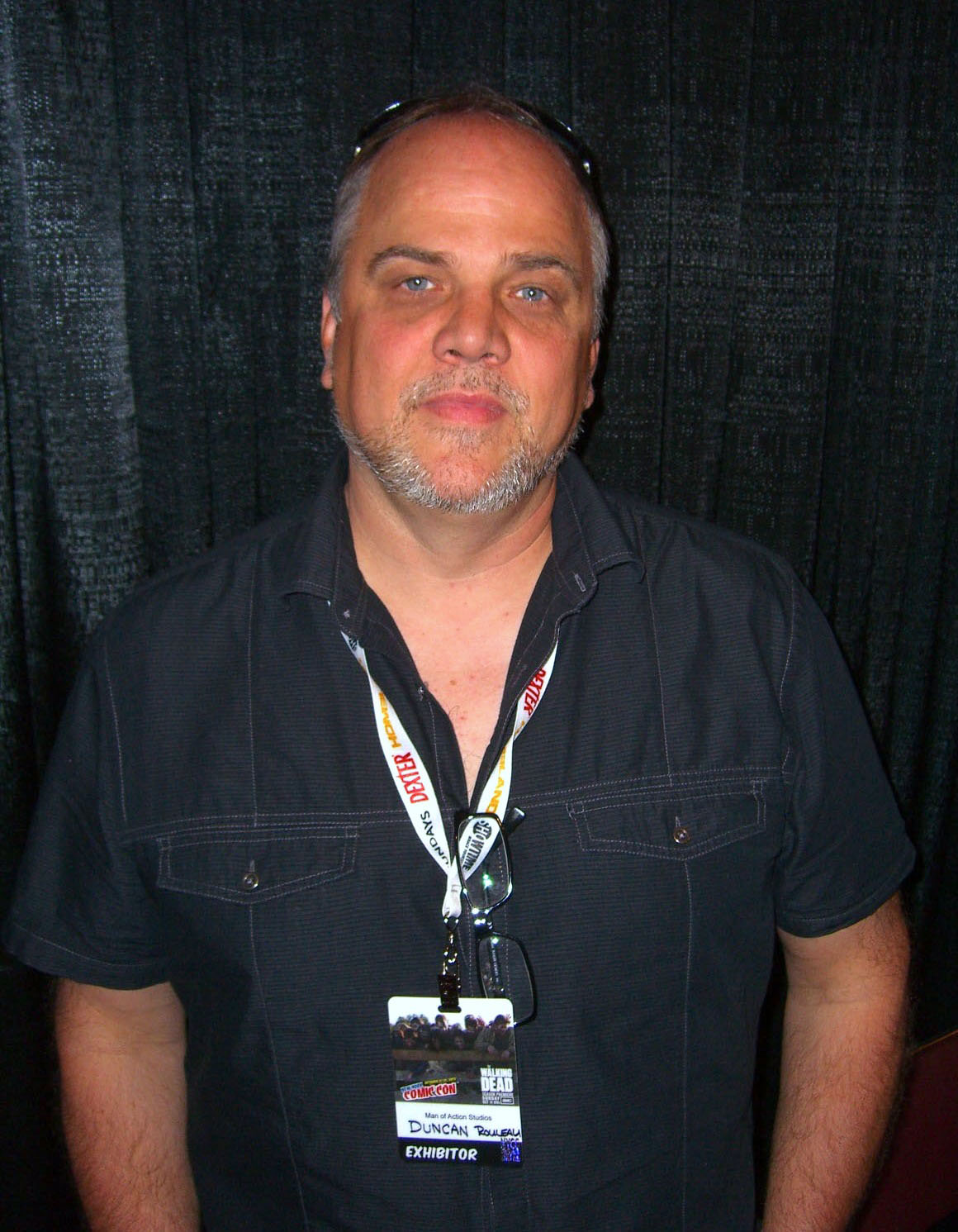 Comics creator Duncan Rouleau following the Man of Action discussion panel on Day 4 of the 2012 New York Comic Con, Sunday October 14, 2012 at the Jacob K. Javits Convention Center in Manhattan. This photo was created by Luigi Novi. It is not in the public domain, and use of this file outside of the licensing terms is a copyright violation.